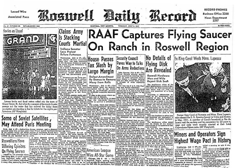 Roswell Daily Record from July 9, 1947 detailing the Roswell UFO incident.